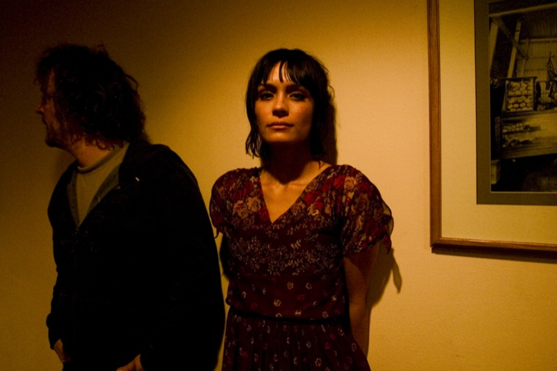 Entrevista a Goran Dukic y Shannyn Sossamon, por Wristcutters, a Love Story Park City, Utah, EEUU Foto: Toni Verd